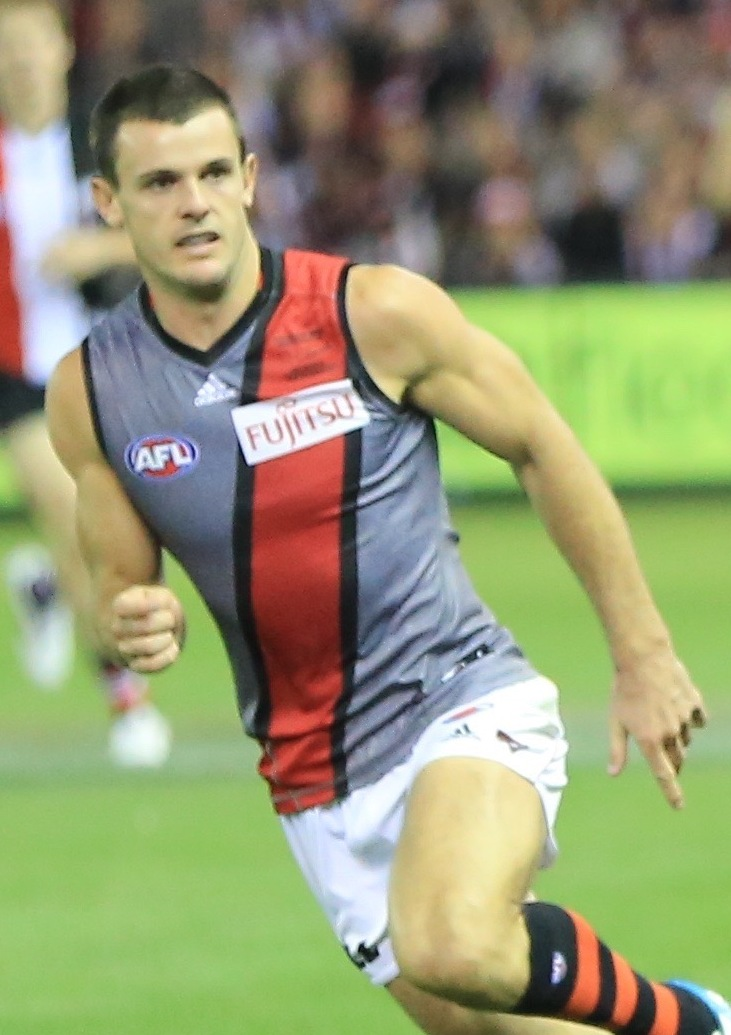 Brent Stanton during the round five match between St Kilda and Essendon on 3 May 2015 at Etihad Stadium in Melbourne, Victoria